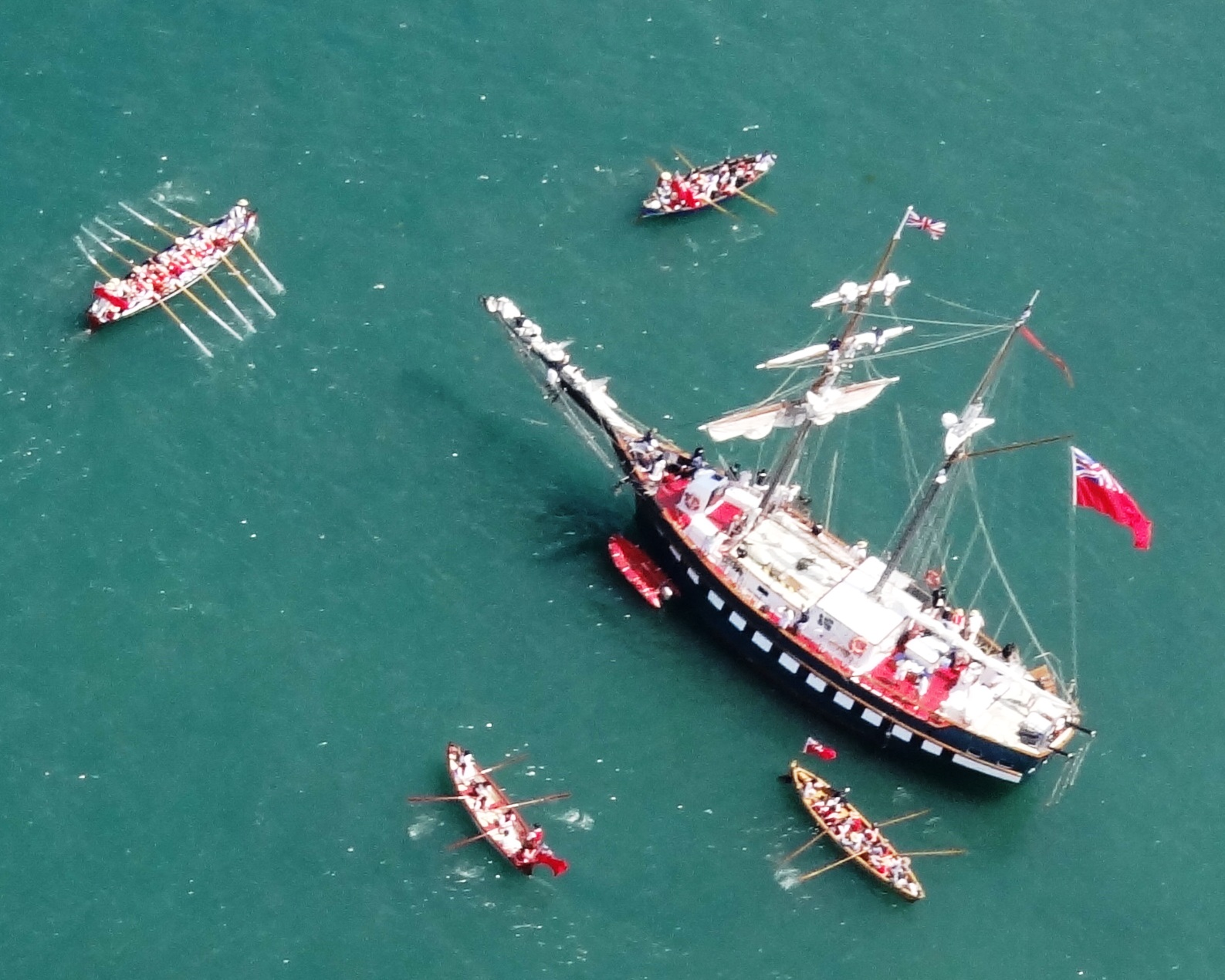 As part of a War of 1812 re-enactment, longboats are dispatched from the 110' tall ship "Fair-Jeanne".